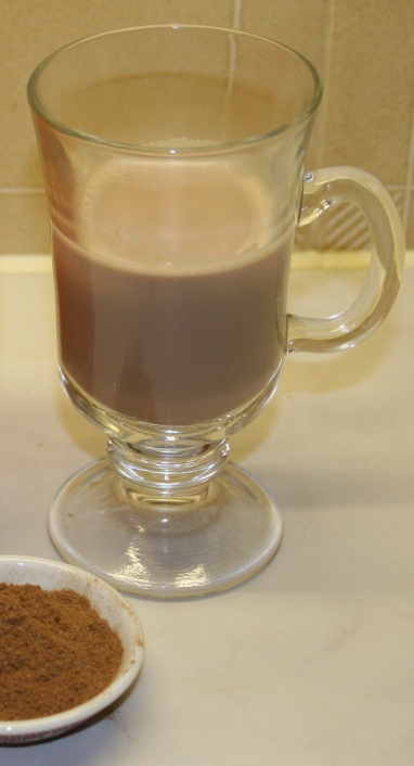 Ovaltine from the U.K., with a small mug of the same made with hot milk, and a tablespoon the powder.